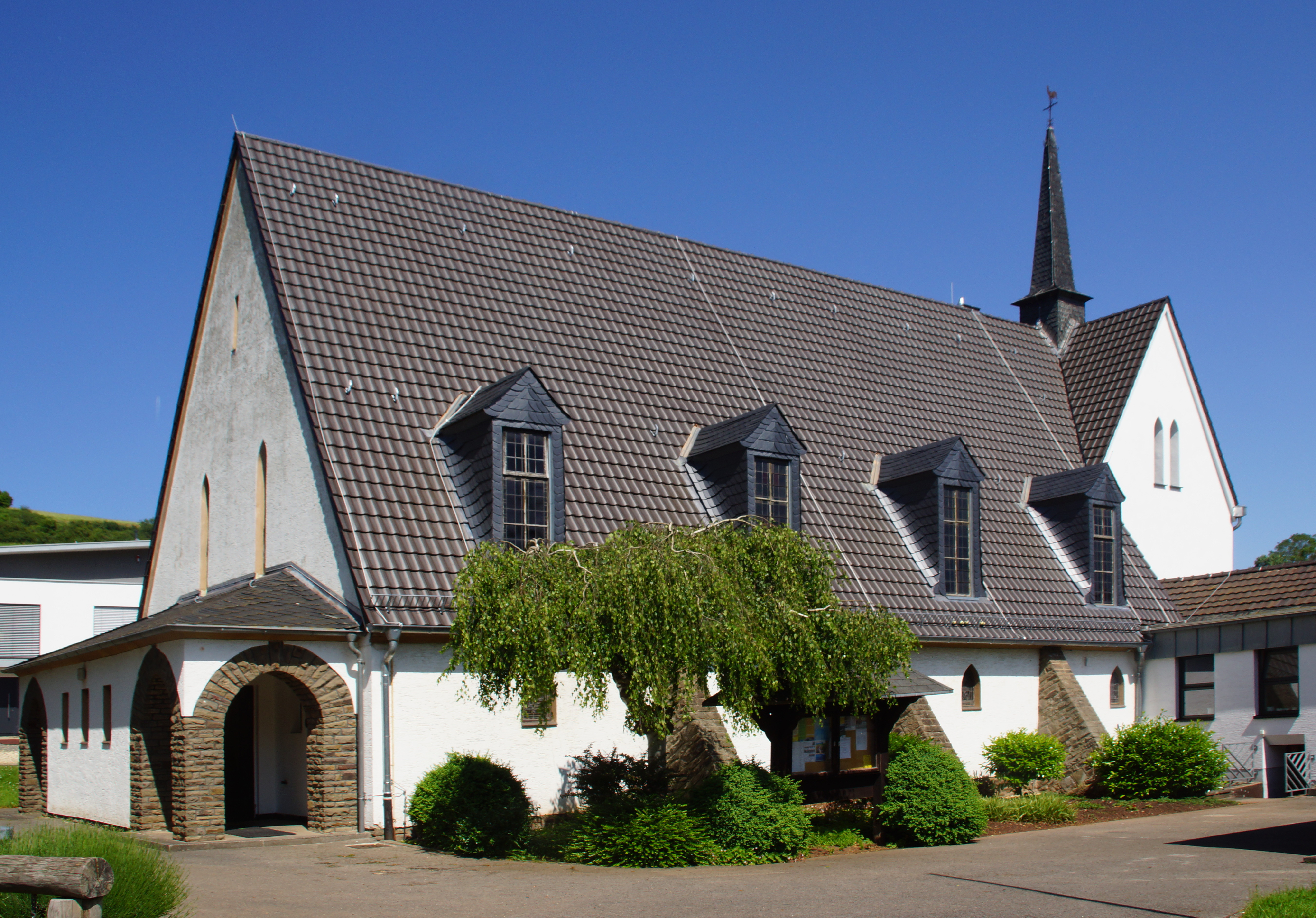 Catholic parish church of St. Margaretha in Vussem, Rosenweg.